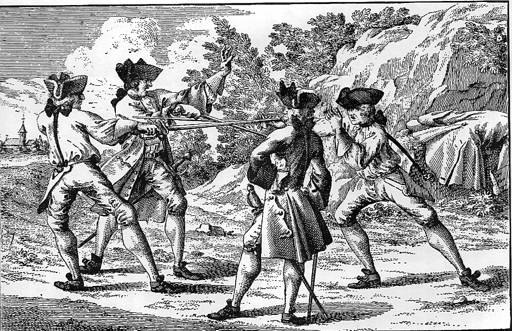 Copper engraving: Student duel in Göttingen ca. 1750